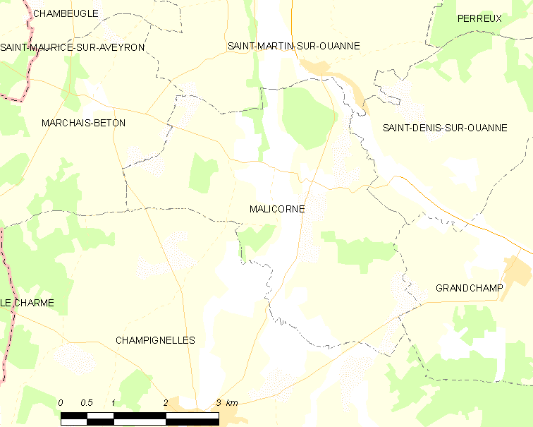 Map of French municipality Malicorne